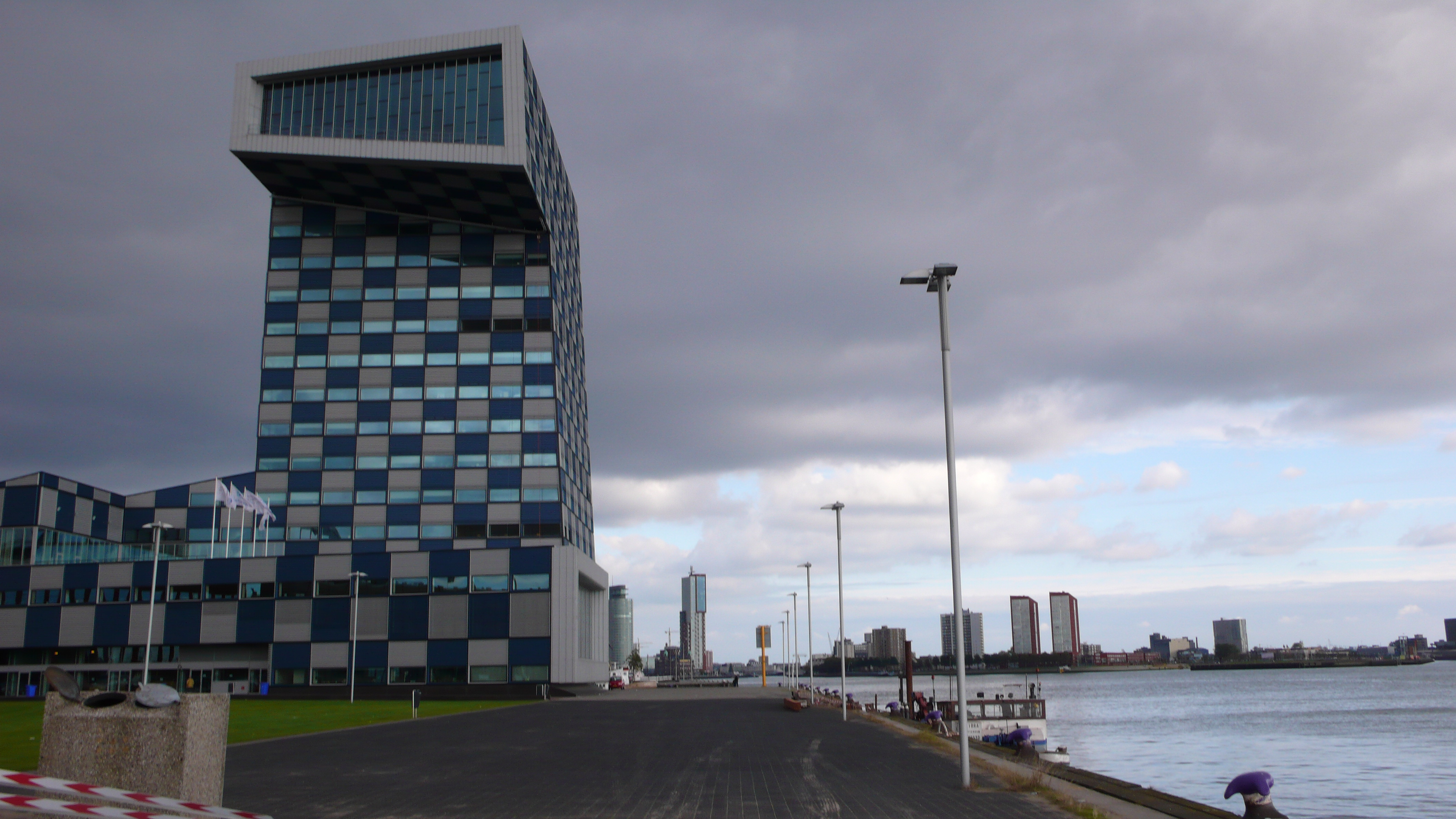 Nautical College, Rotterdam, The Netherlands